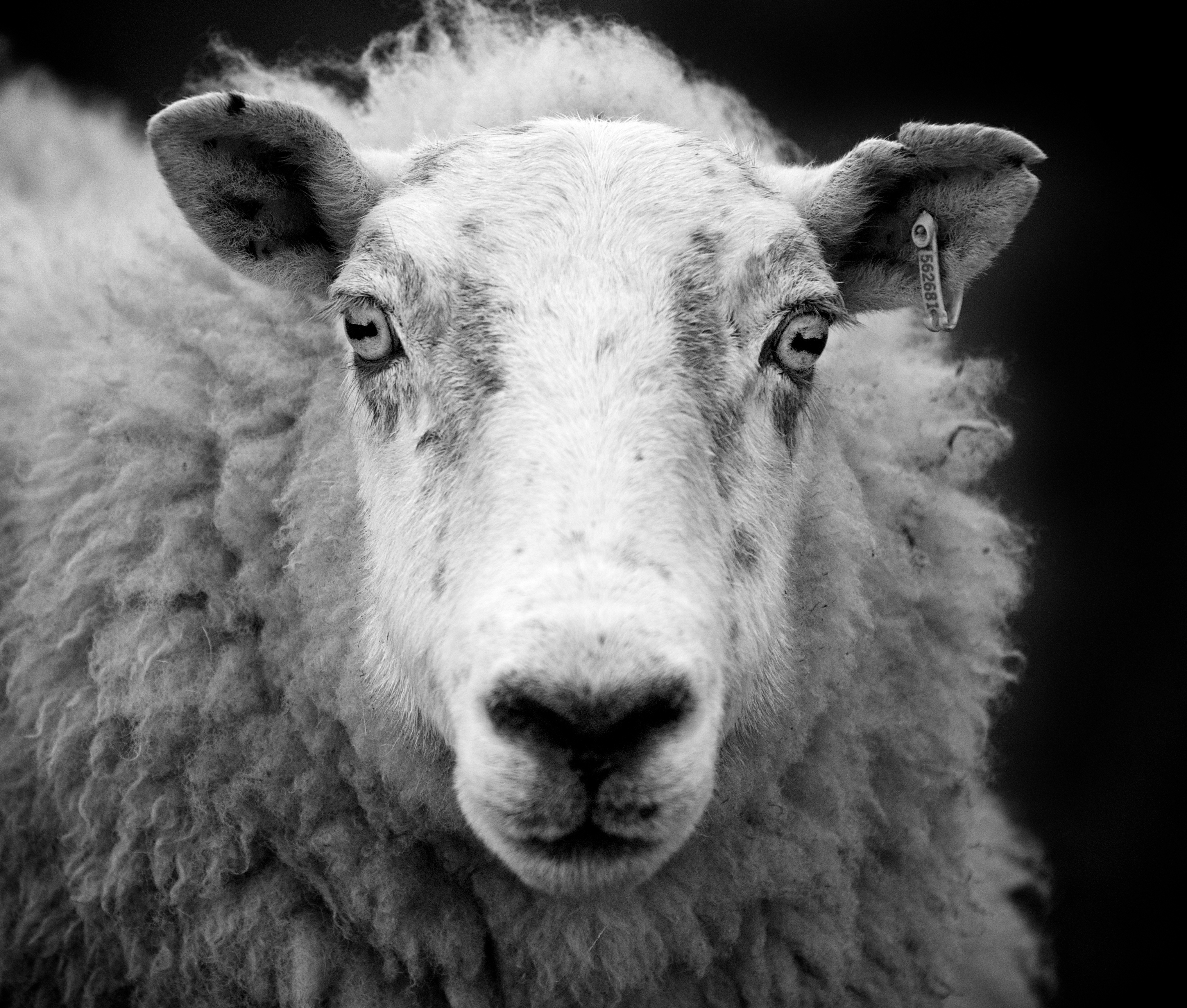 Black and White photo of a Ewe Sheep in Scotland